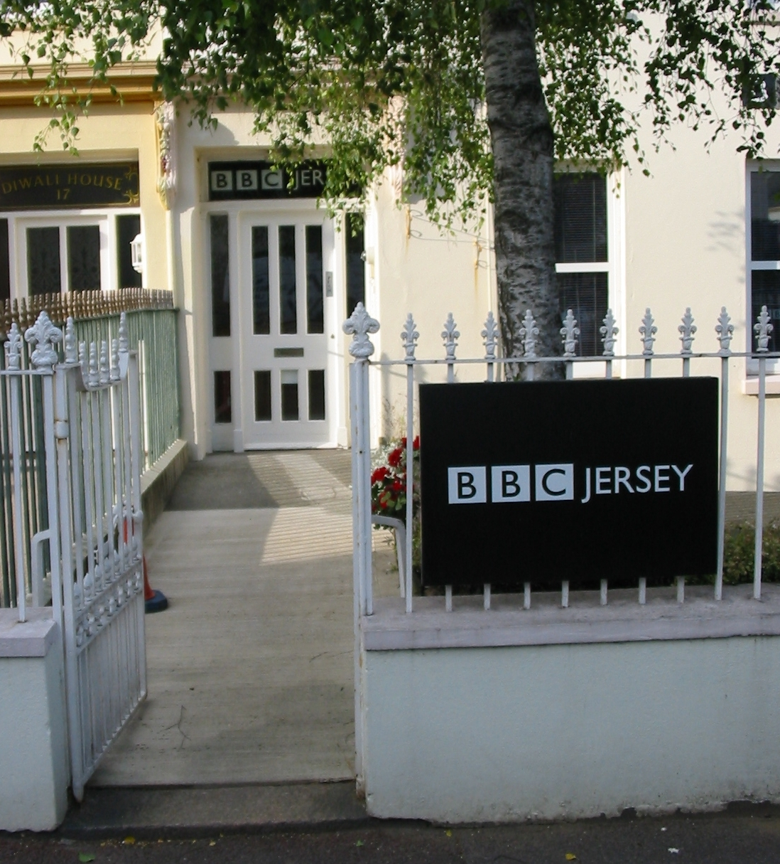 BBC Radio Jersey, Saint Helier, Jersey, July 2008